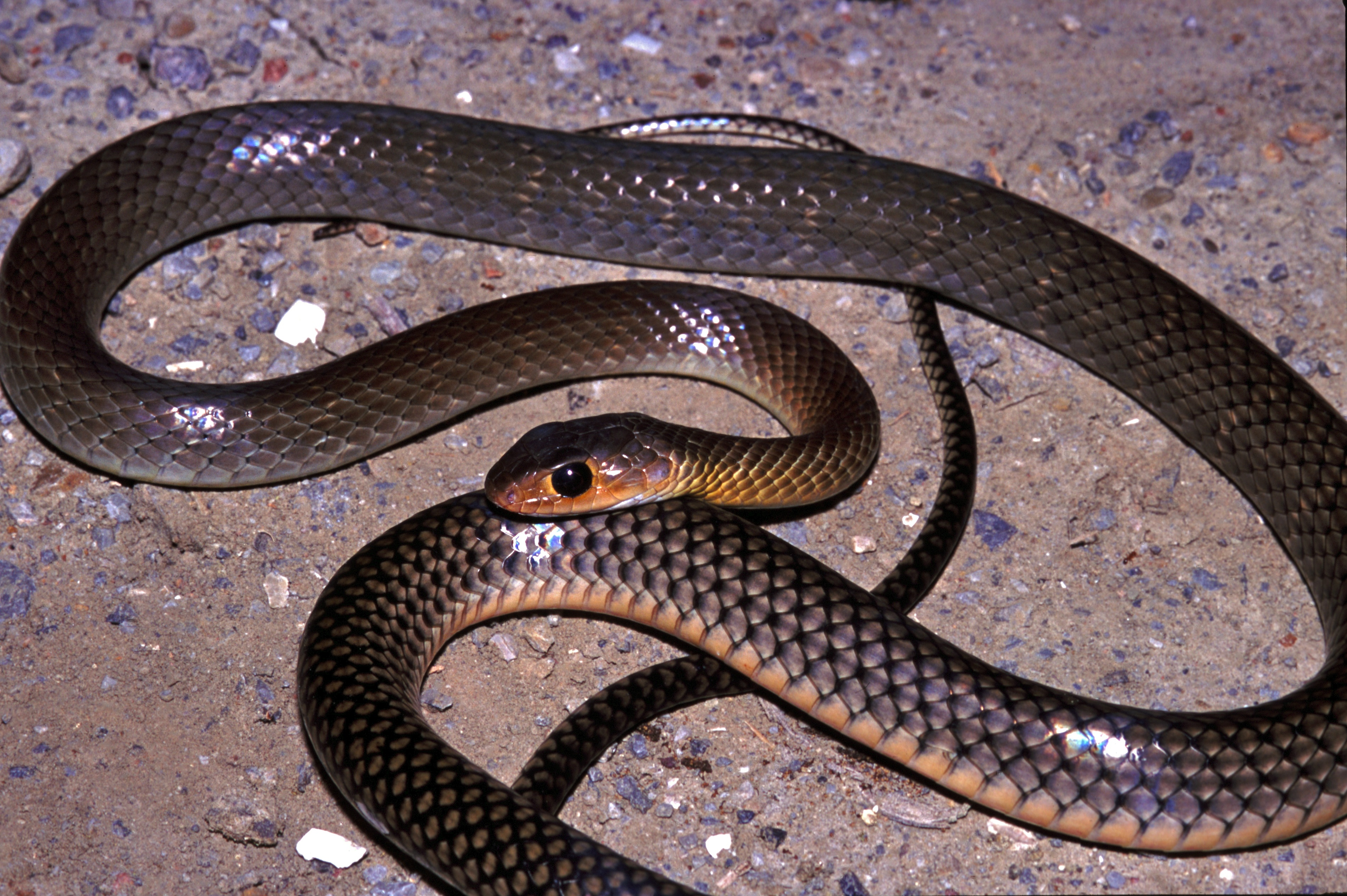 Khao Sam Roi Yot NP, THAILAND Scanned Slide from 2003